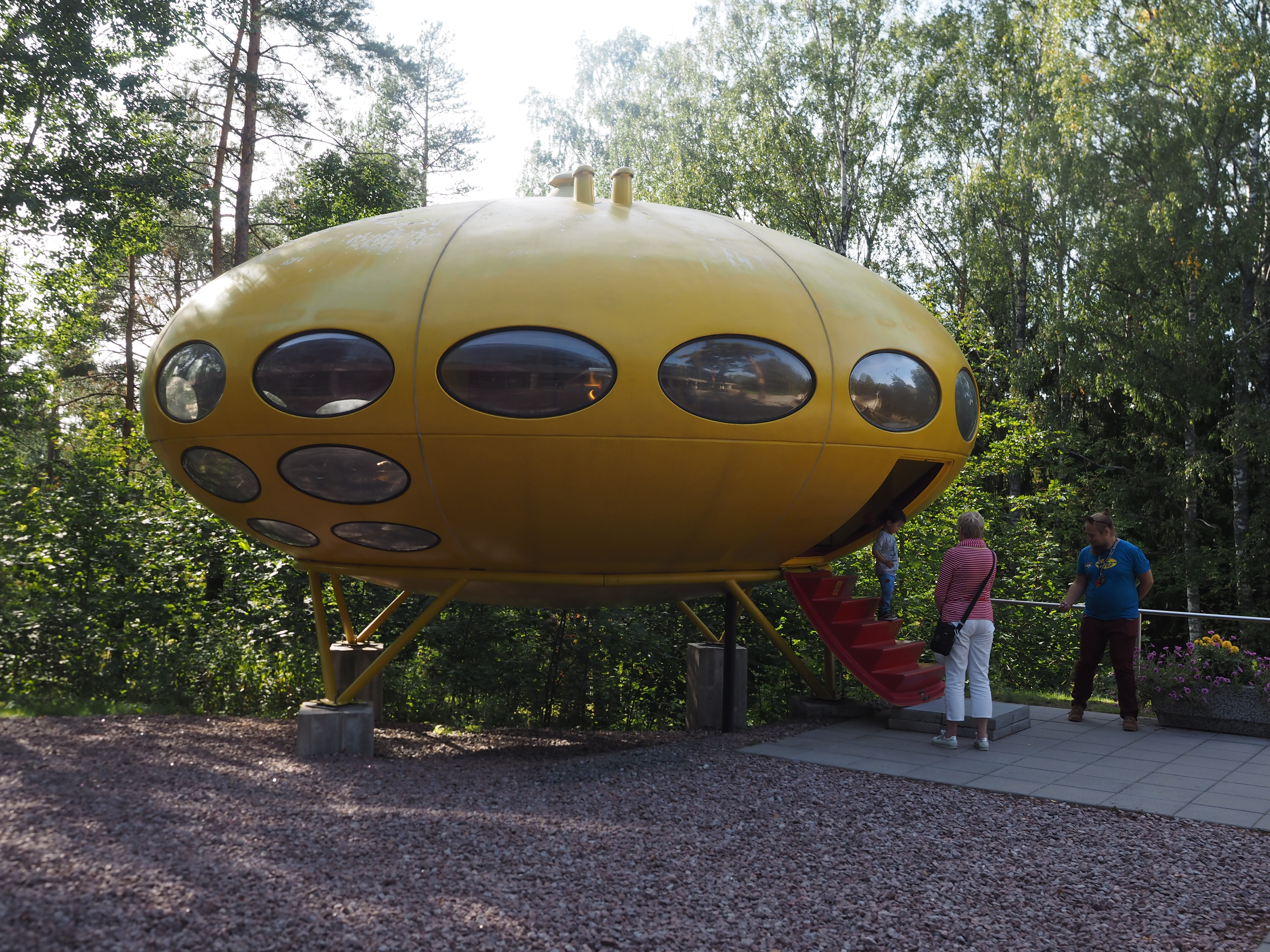 A Futuro house on display at the WeeGee museum in Tapiola, Espoo, Finland.